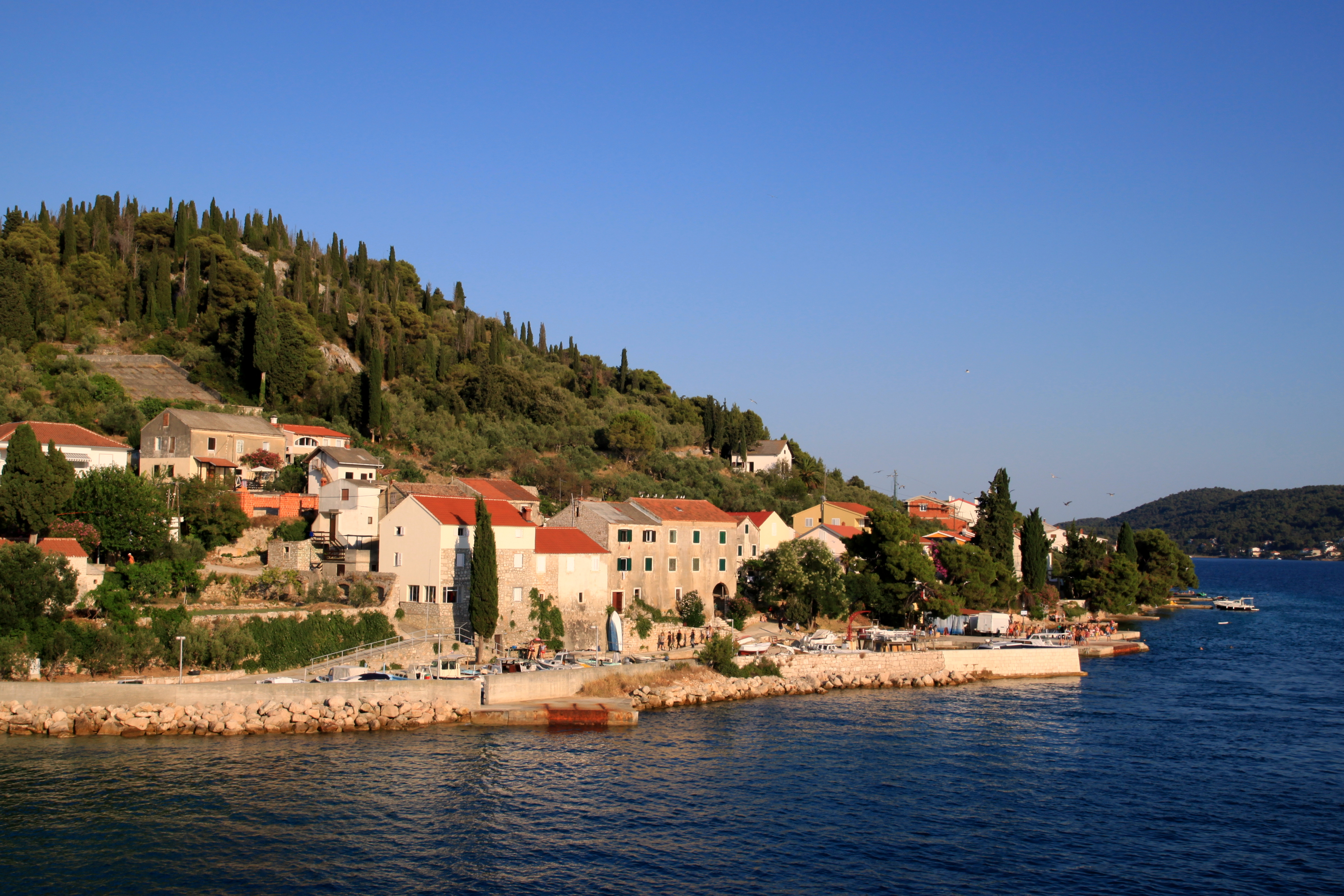 Ošljak settlement on the eponymous island.